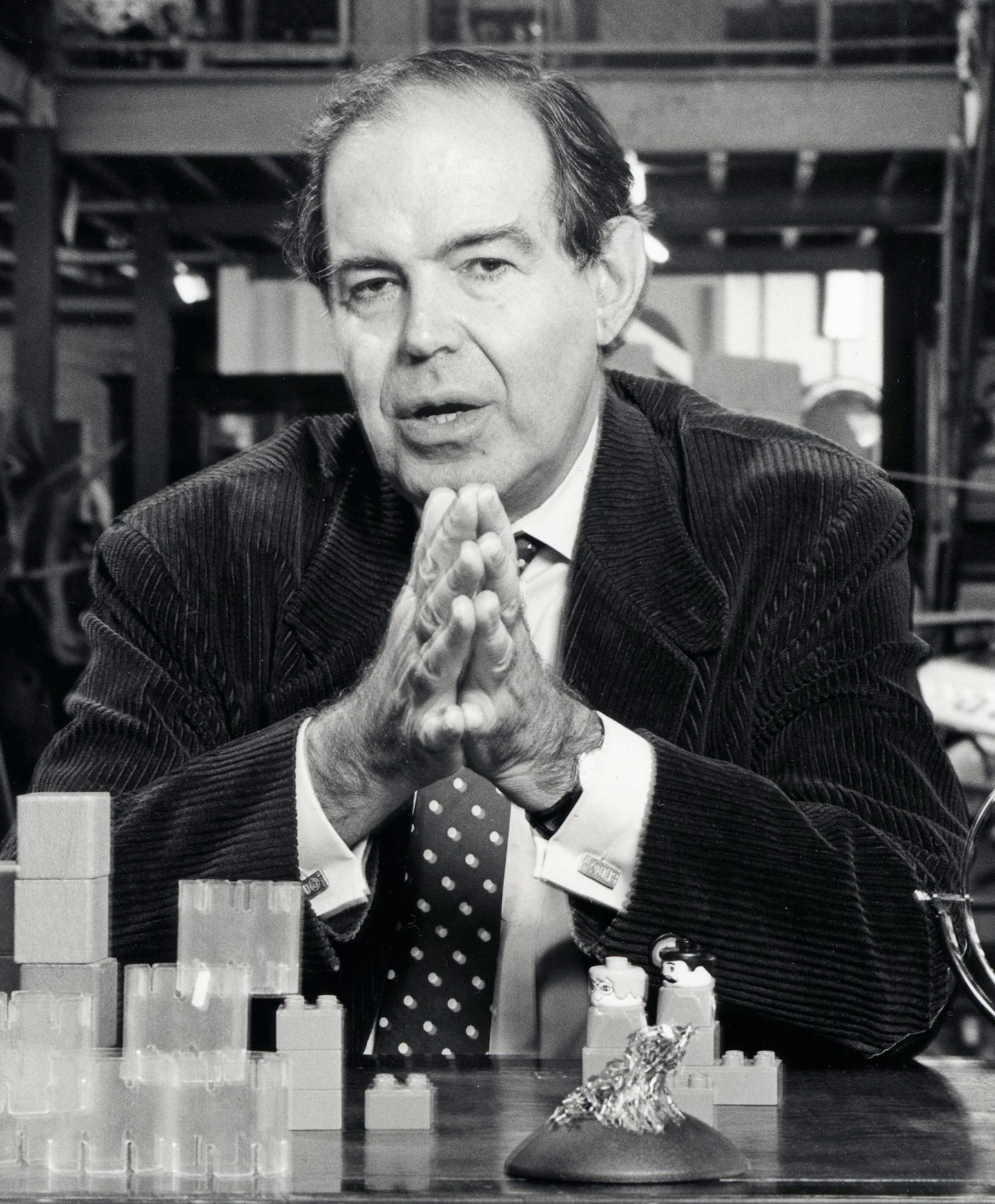 Edward de Bono appearing on Channel 4 tv series Opinions made by Open Media in 1994.